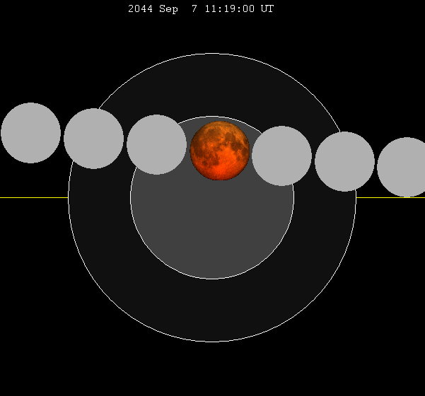 September 2044 lunar eclipse chart of moon's path through the earth's shadow. thumb